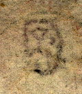 Scan of "elephant head" watermark used on old stamps of India